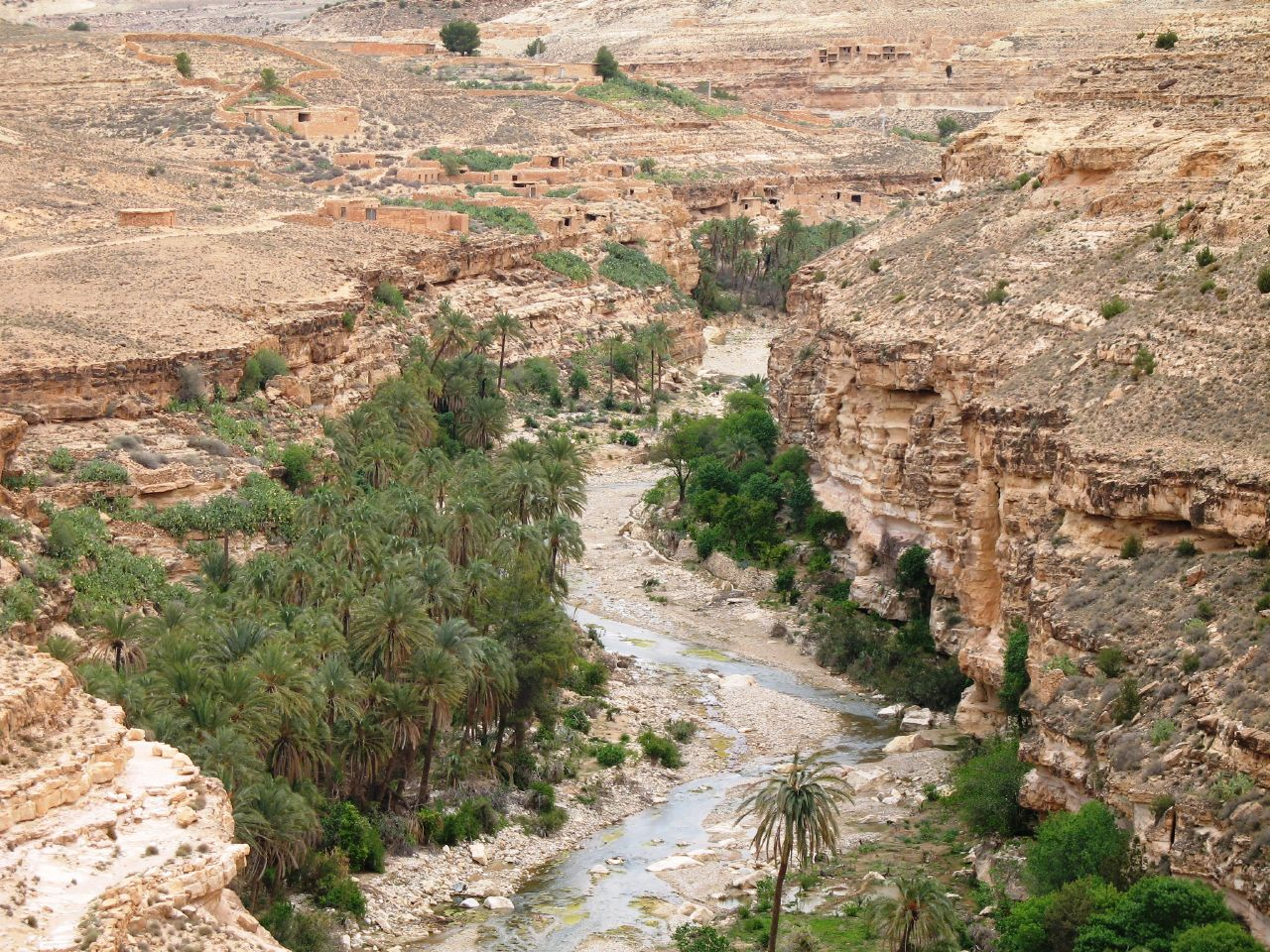 Canyon of Ghoufi, Aurès, Algeria.